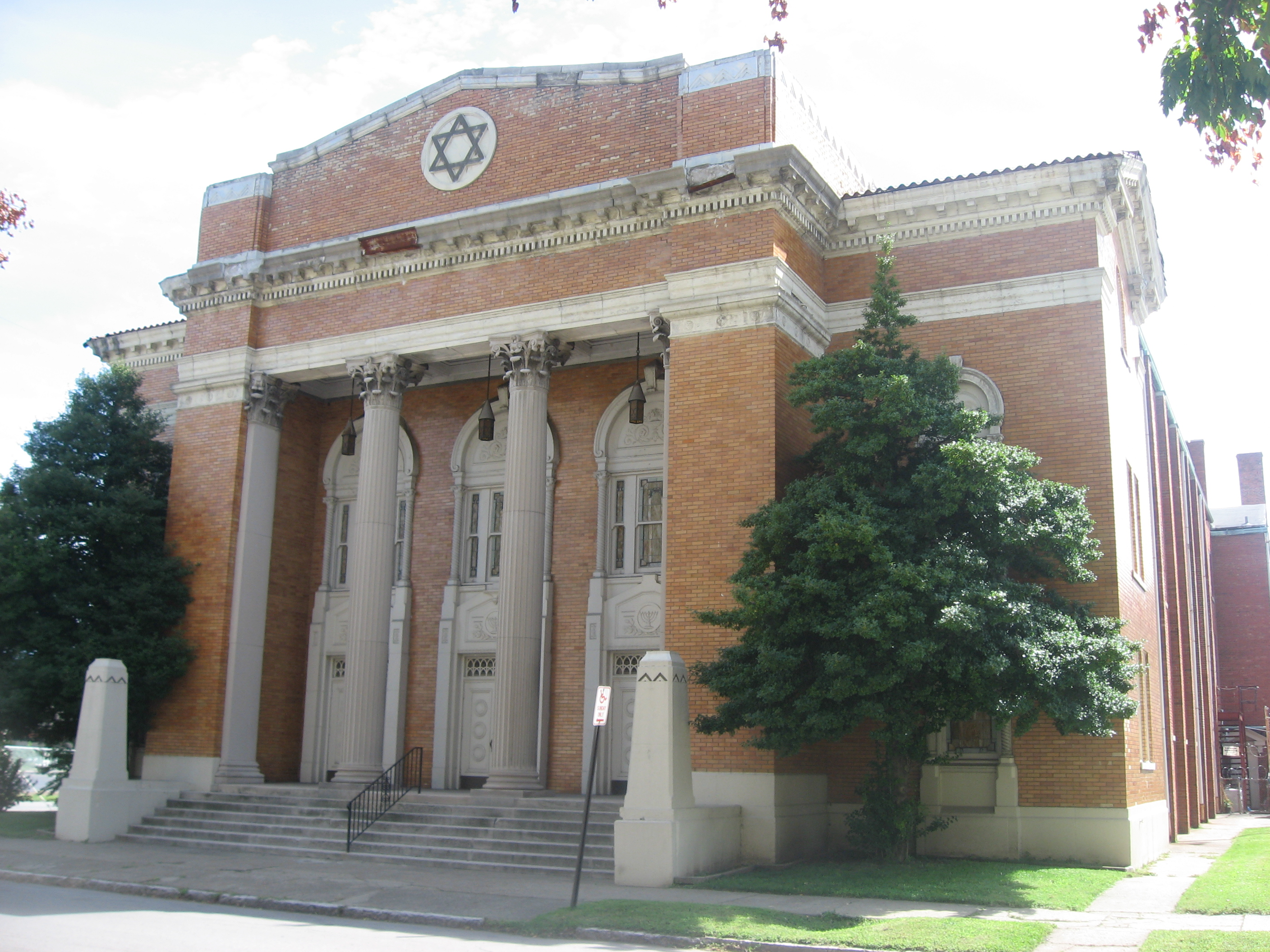 Front of the former Keneseth Israel Synagogue, located at 232-236 E. Jacob Street in Louisville, Kentucky, United States. Built in 1928, it is listed on the National Register of Historic Places.